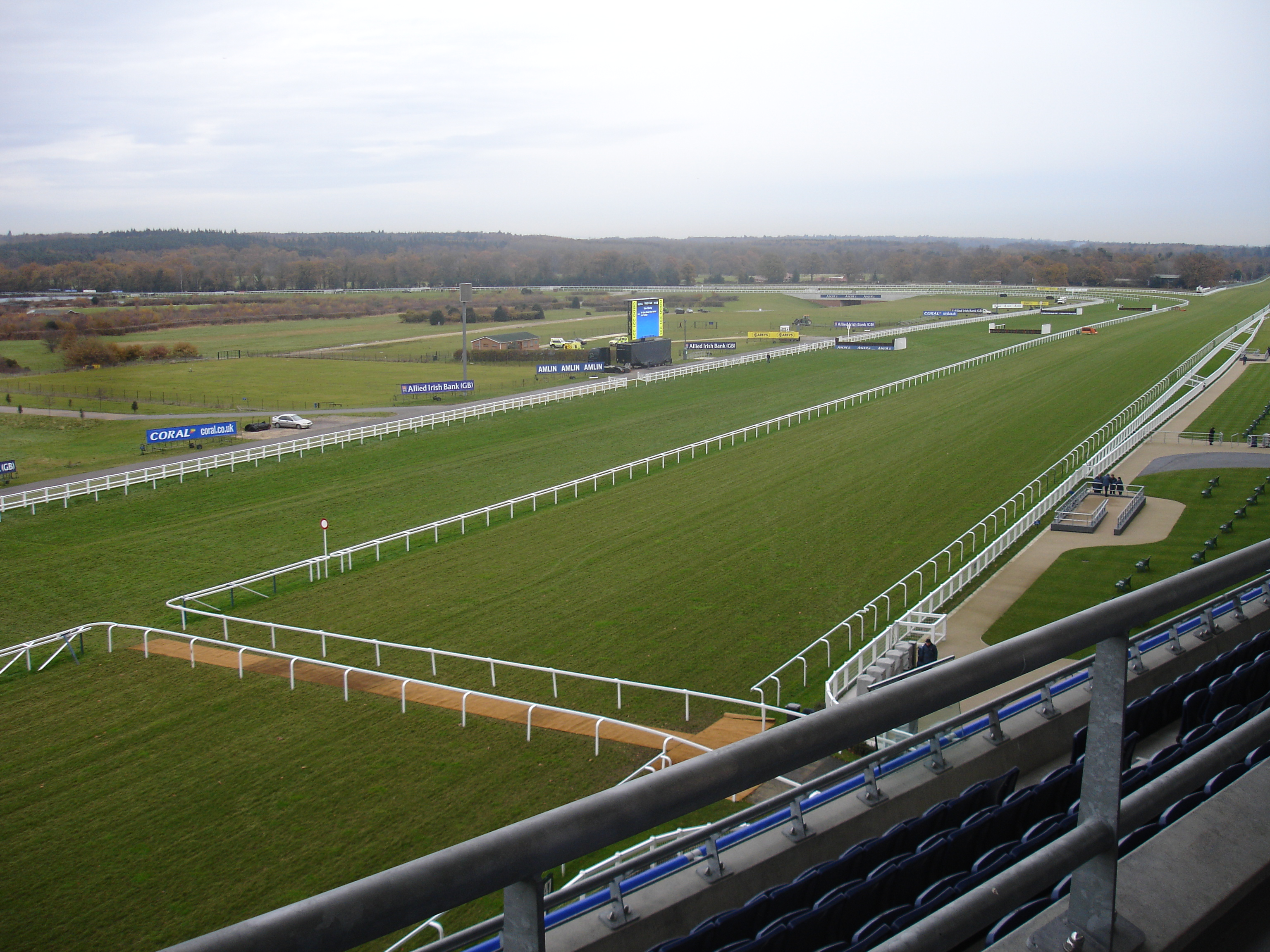 Photograph of Ascot Racecourse, Ascot, Berkshire, England